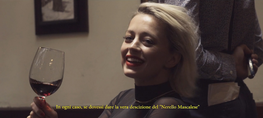 Caroline Vreeland at 1′13″ of HYPEBAE : Spaghetti, Wine and Caroline Vreeland: unscripted smile after she mispronounces the Italian wine name and procedes to correct herself.